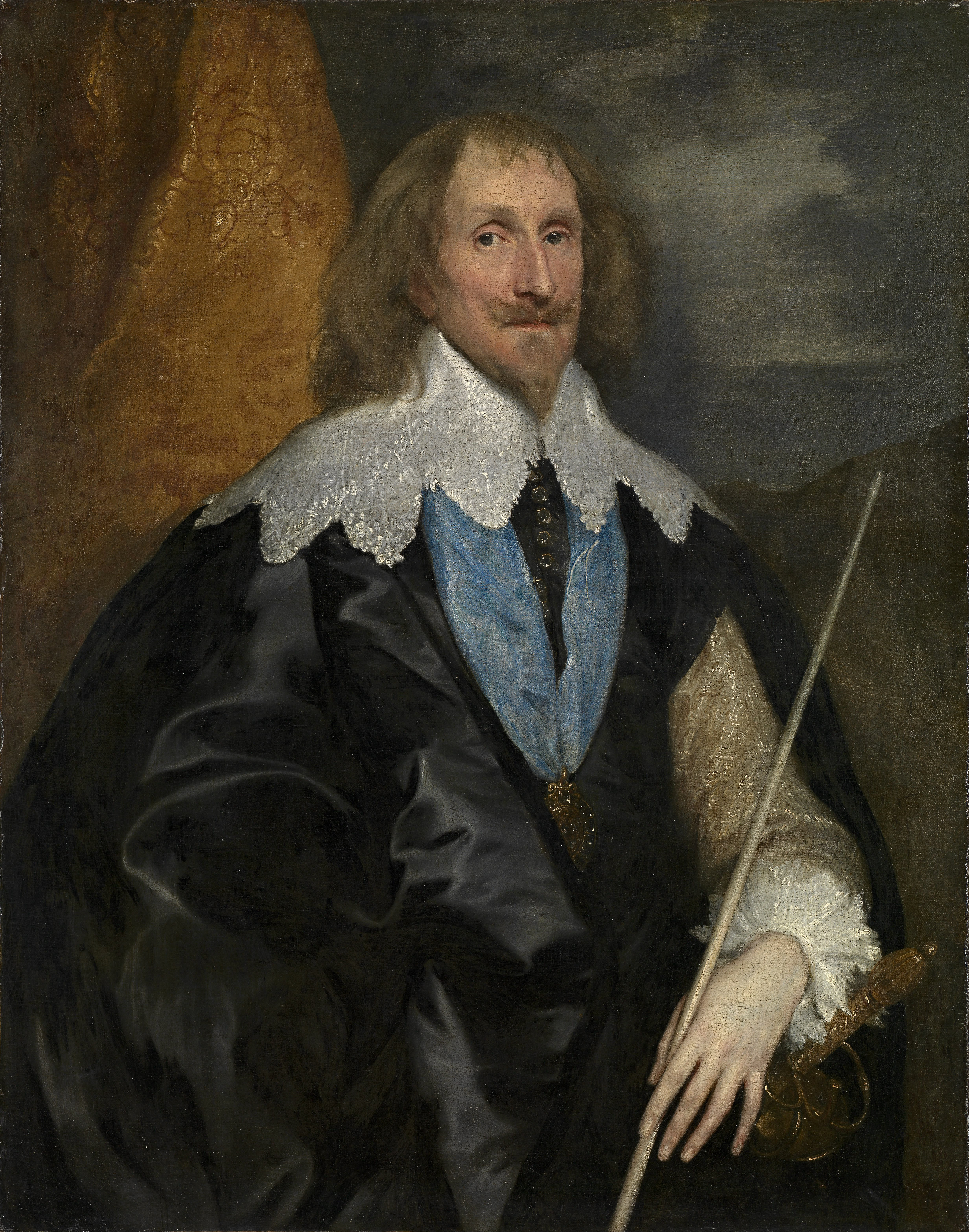 Herbert is depicted here holding the wand of office of Lord Chamberlain, which after the King was the most important position at court.